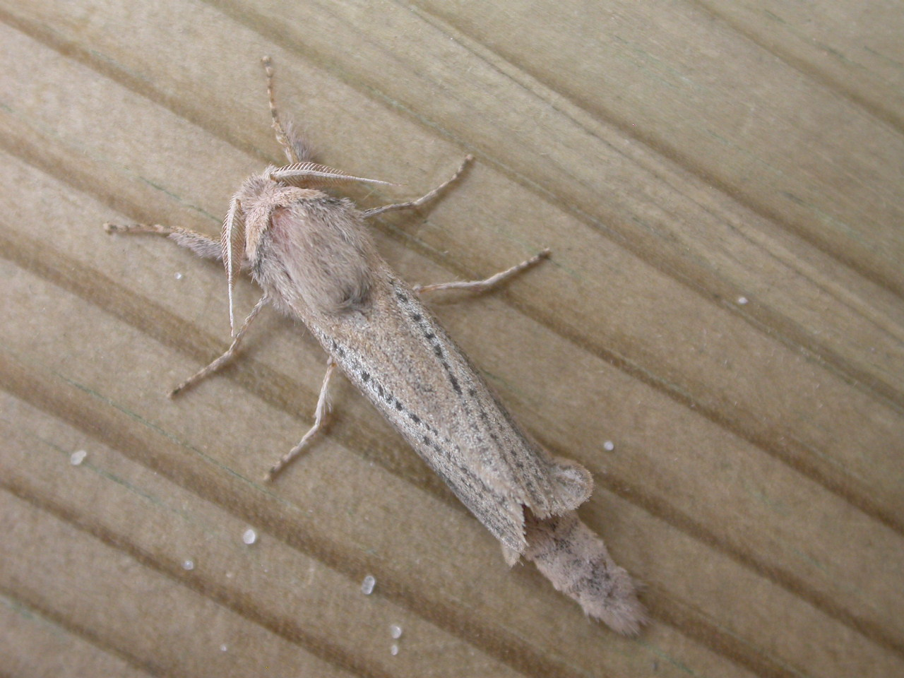 Phragmataecia castaneae, Gastes, Landes, SW France, 1/2 July 2003